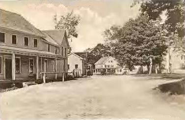 Upper Square in 1911, Center Sandwich, NH; from an old postcard.